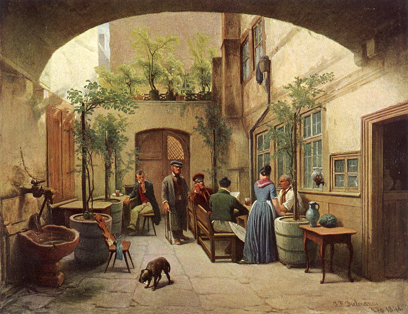 Das Brauhaus in der Gelnhäuser Gasse zu Frankfurt (1848)